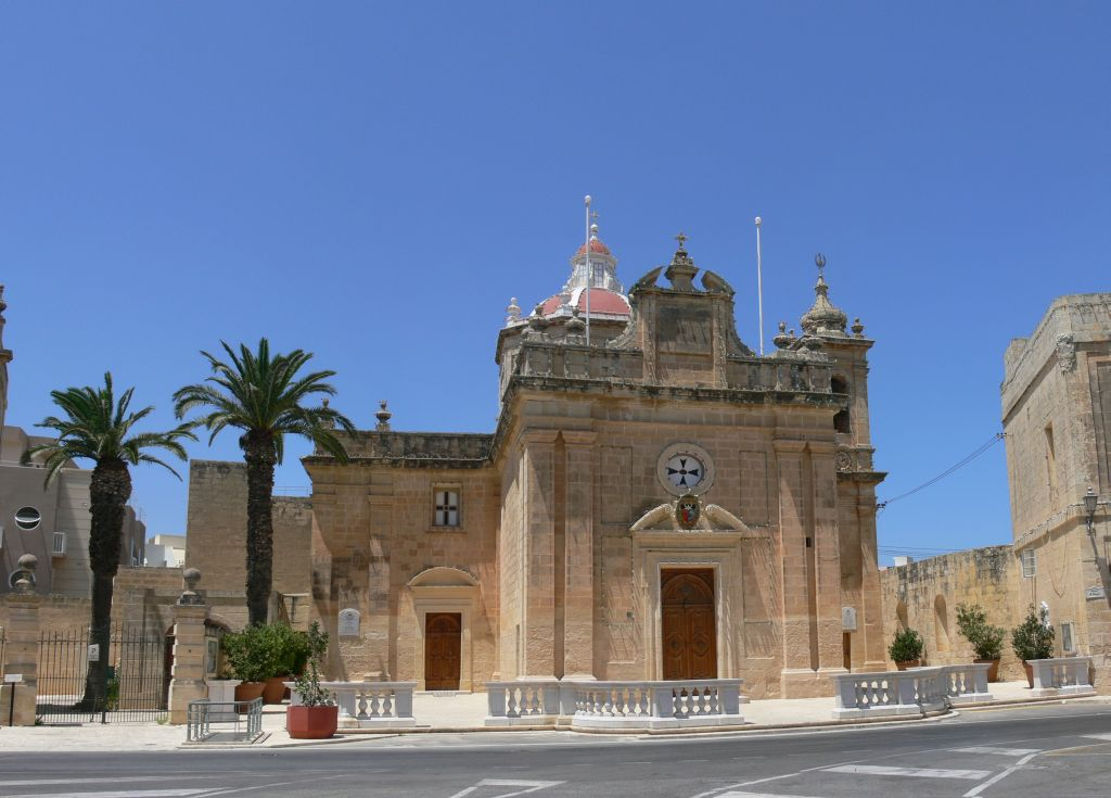 The church of Ħal Safi, Malta